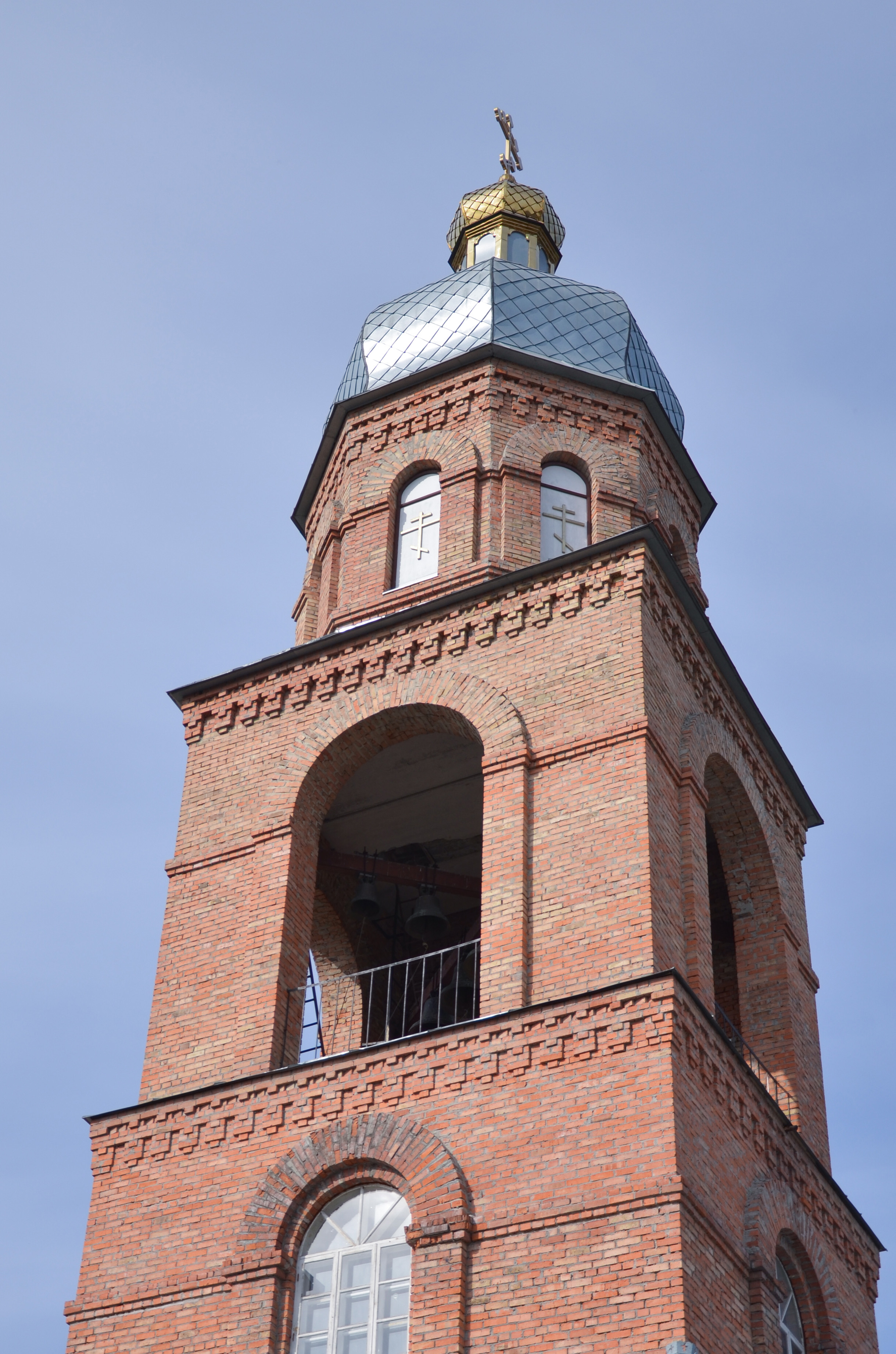 Дзвіниця Свято-Георгієвського храму